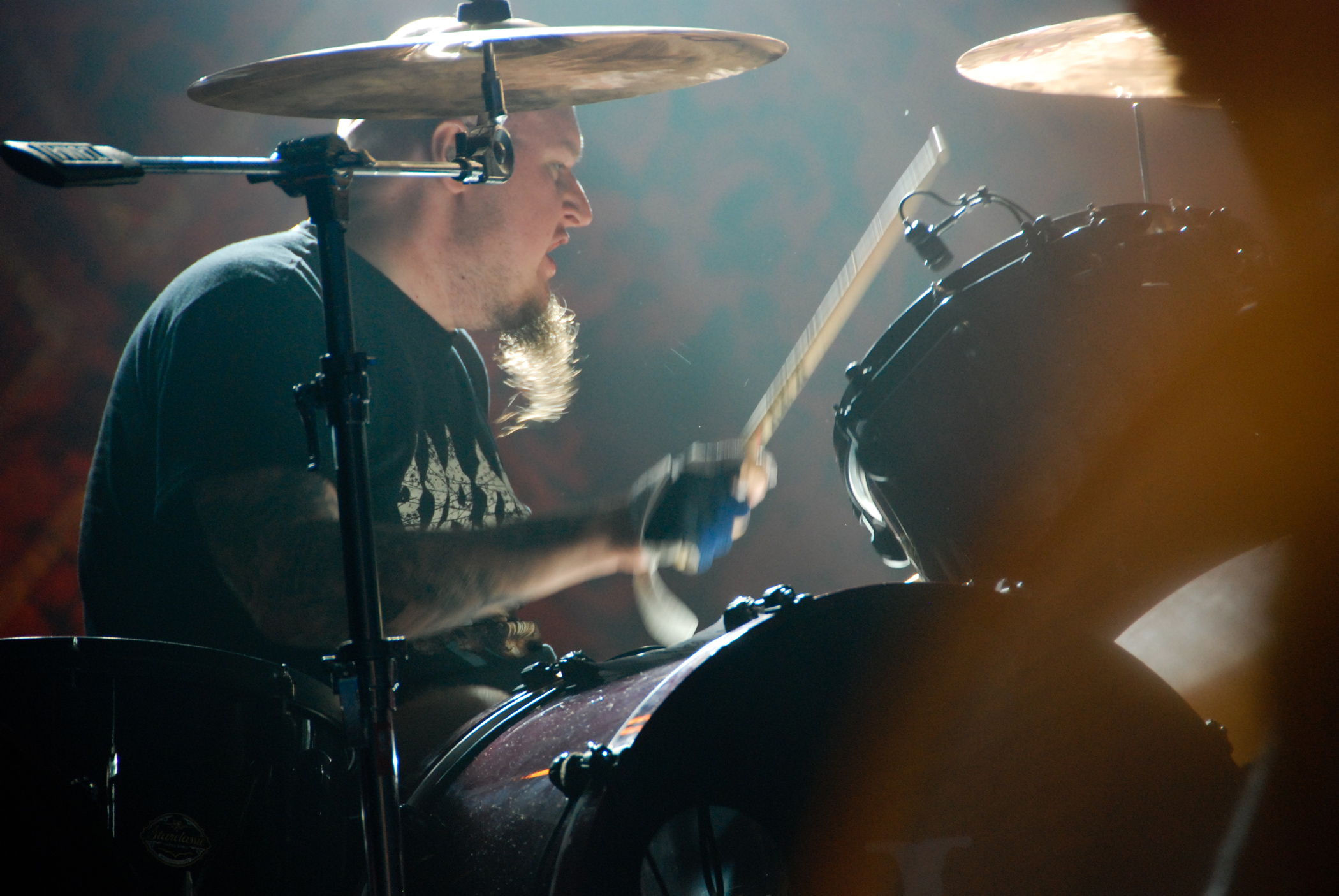 Drummer Gas Lipstick of HIM performing at the Ilosaarirock festival on the 14th of July 2007 in Joensuu, Finland.